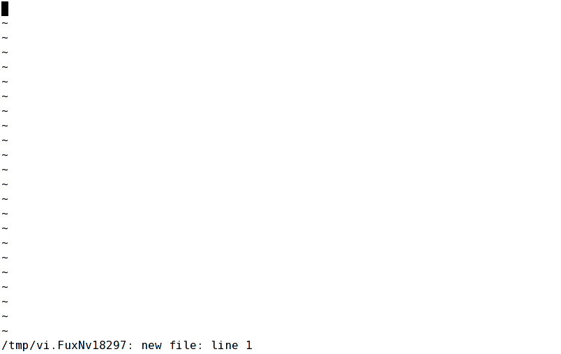 Screenshot of vi splash screen (nvi as vi on BSD, or nvi as may be invoked as vi or nvi on other systems, depending upon configuration)